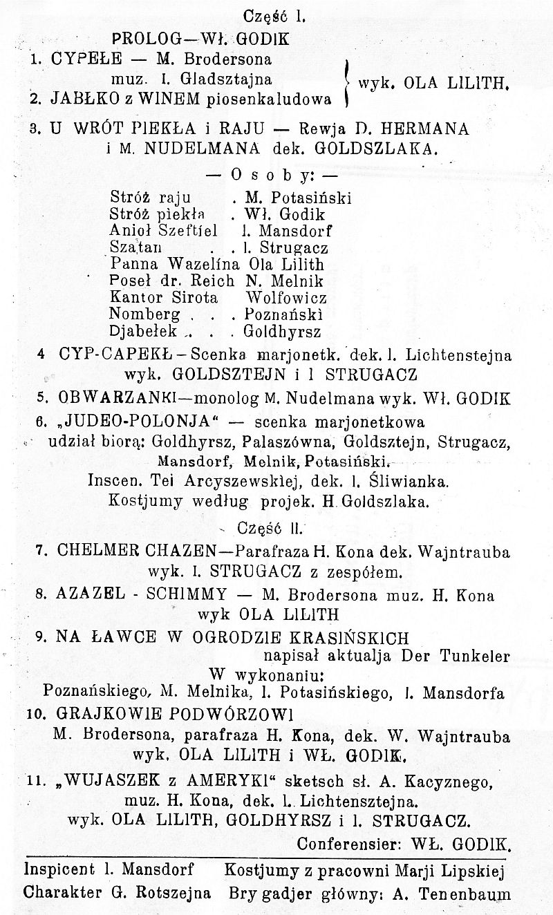 Program Azazel (before 1928). Azazel kleynkunst theate